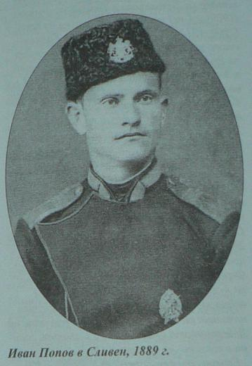 Portrait of IMARO voevoda and bulgarian officer Ivan Popov